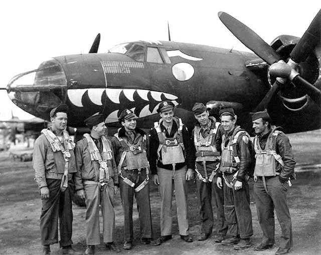 B-26 crew photo from the 1st Pathfinder Squadron (Provisional), Andrews Field, England, 1944